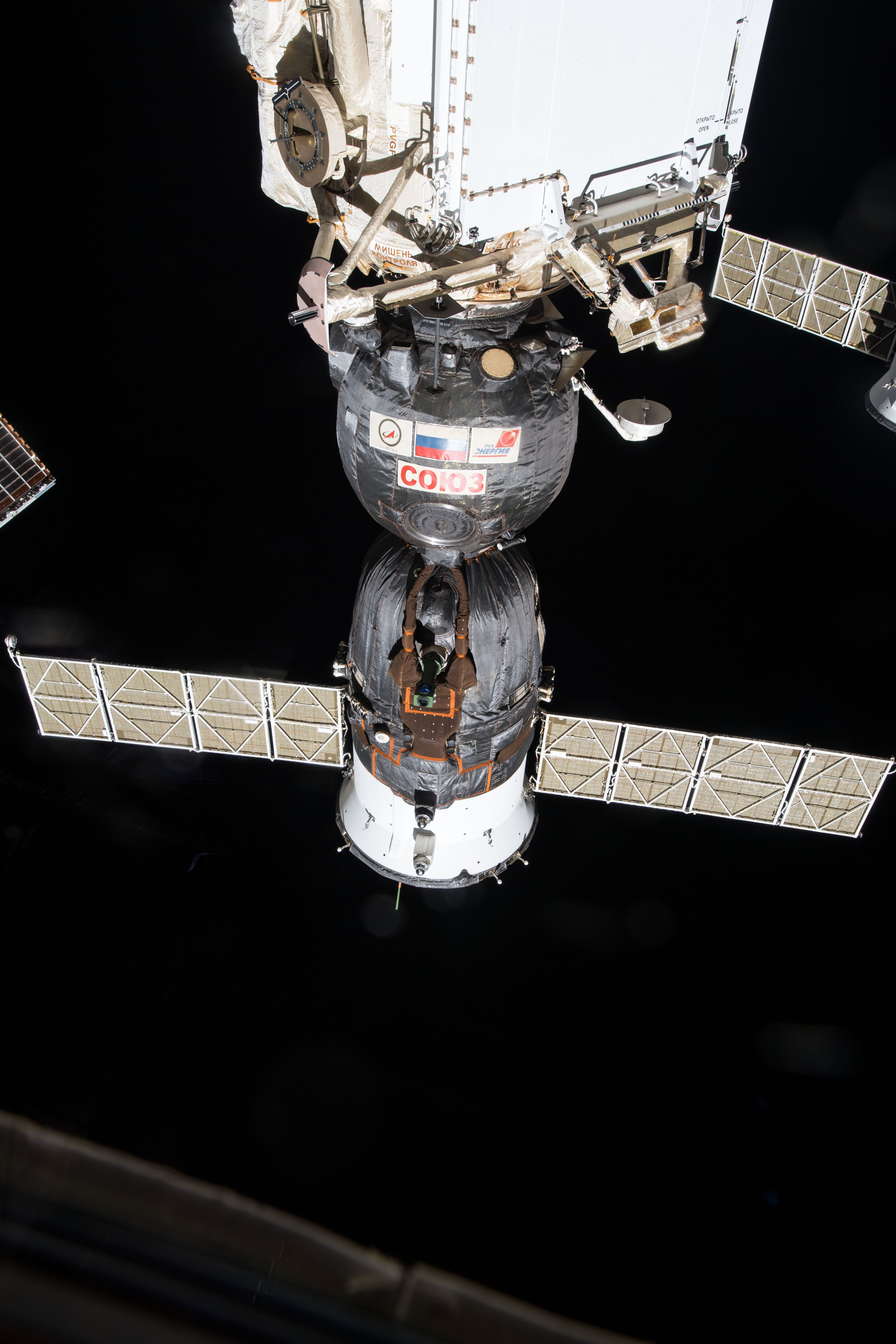 The Soyuz MS-07 spacecraft that launched three Expedition 54/55 crew members to the International Space Station on Dec 17 2017 is pictured docked to the Rassvet module.